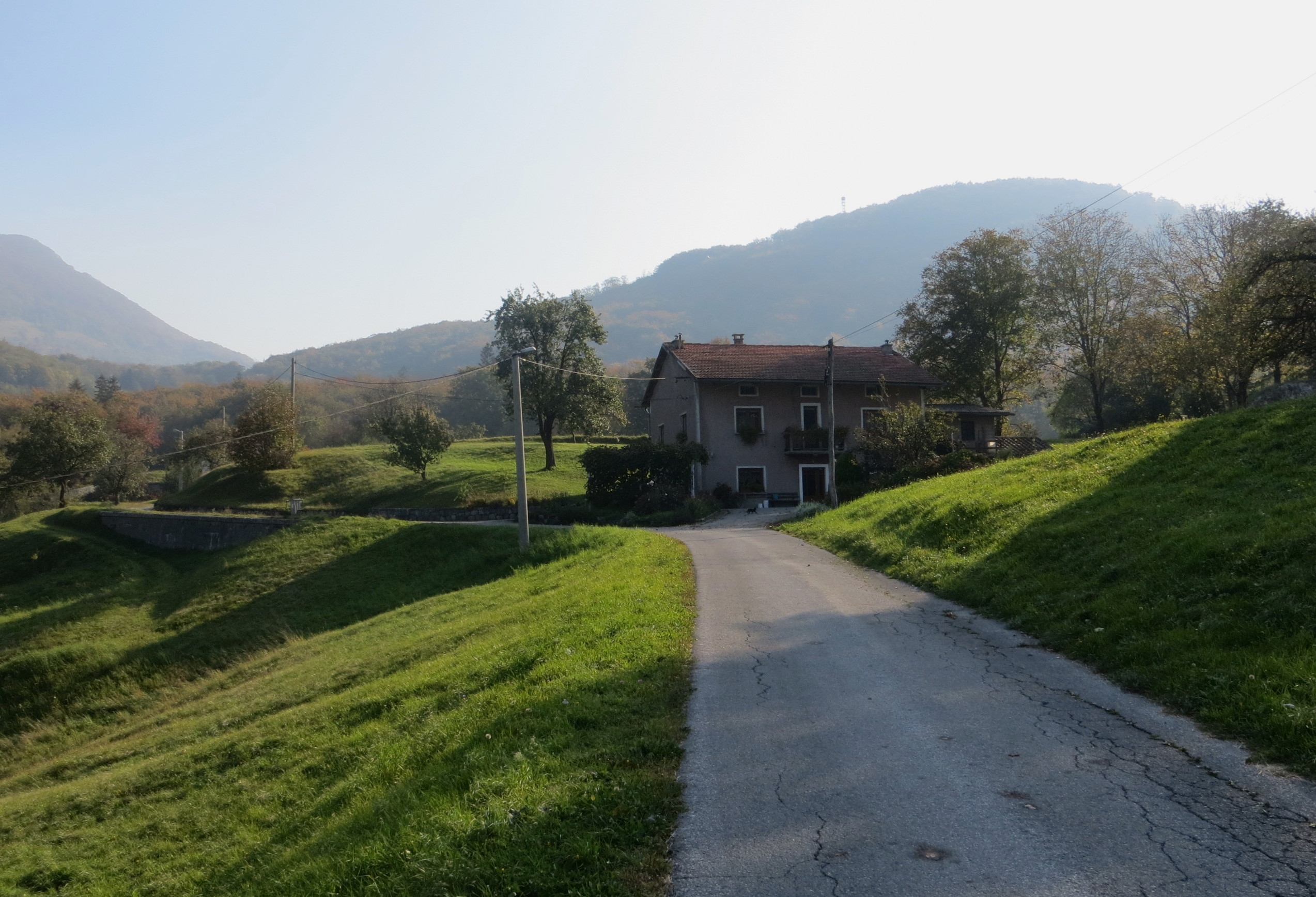 The hamlet of Bezjak in Bela, Municipality of Ajdovščina, Slovenia